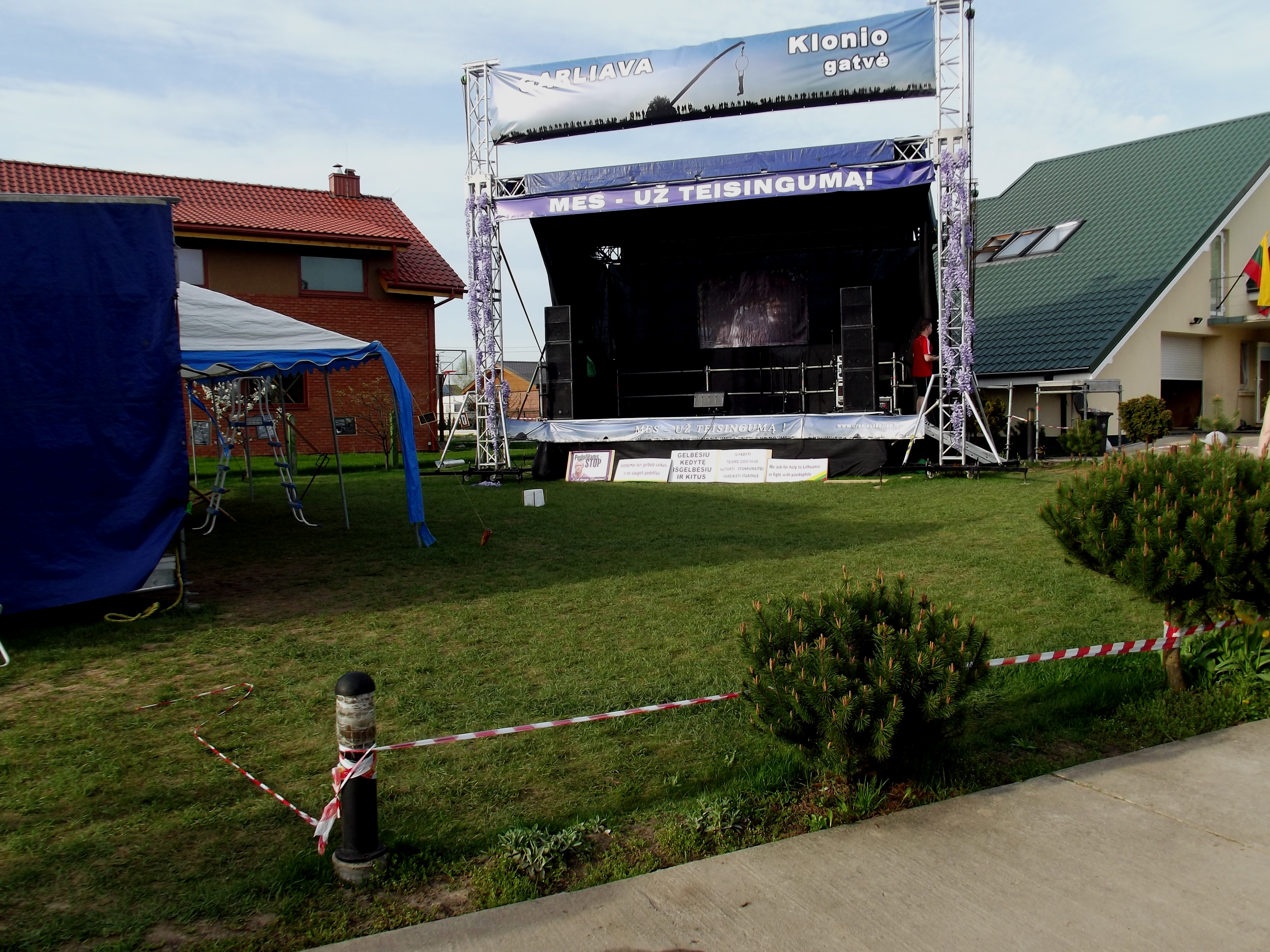 Stage in Klonio Street, Garliava. Lithuania